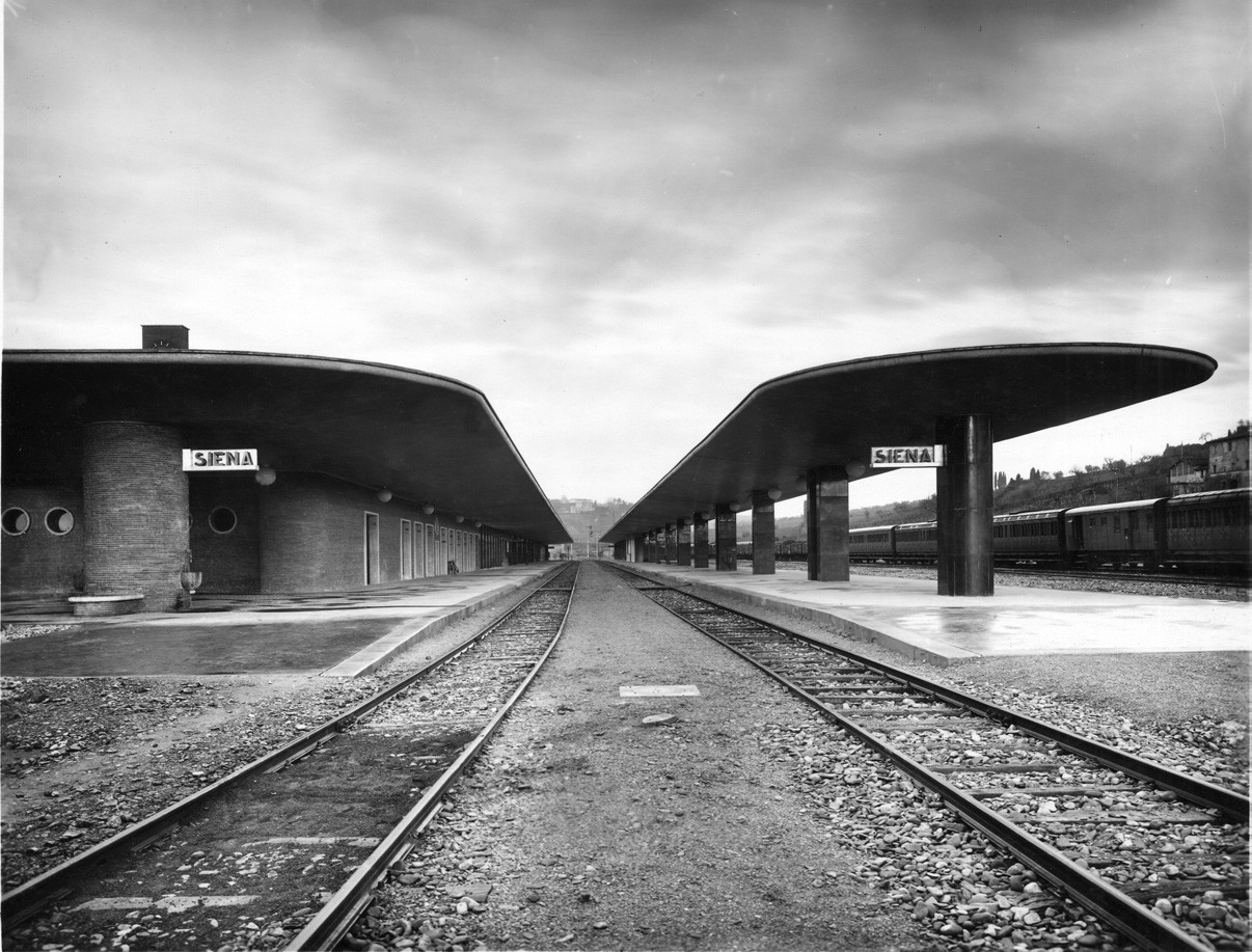 Siena, Stazione Ferroviaria, 1931-1936 Pensiline - "Ove il giunto fra pilastri binati" Fotografia Anderson, Roma - 200 x 260 mm MART Archivio del '900 - Rovereto Fondo Angiolo Mazzoni Maz B20 fasc.VI-5